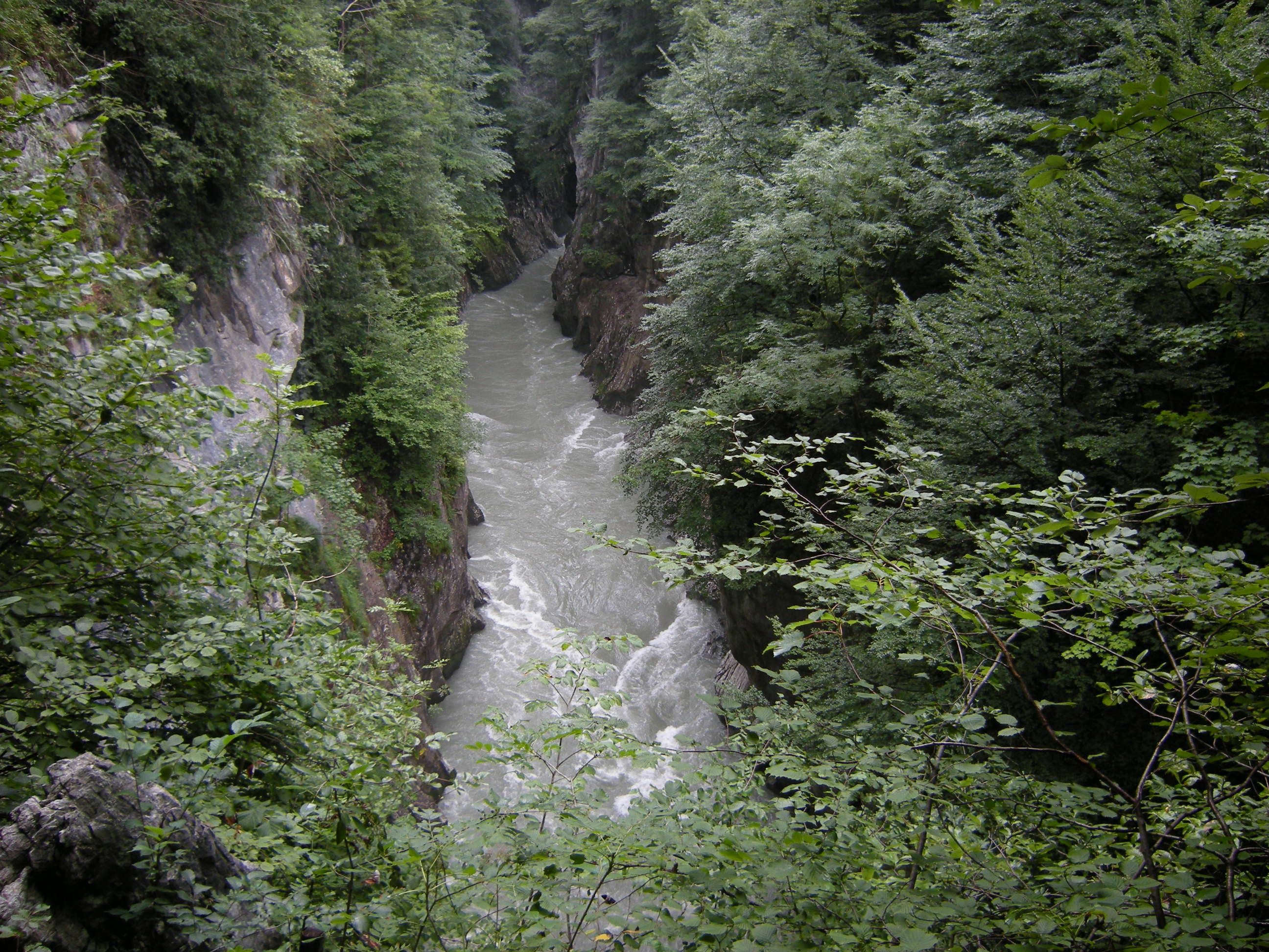 Salzachklamm